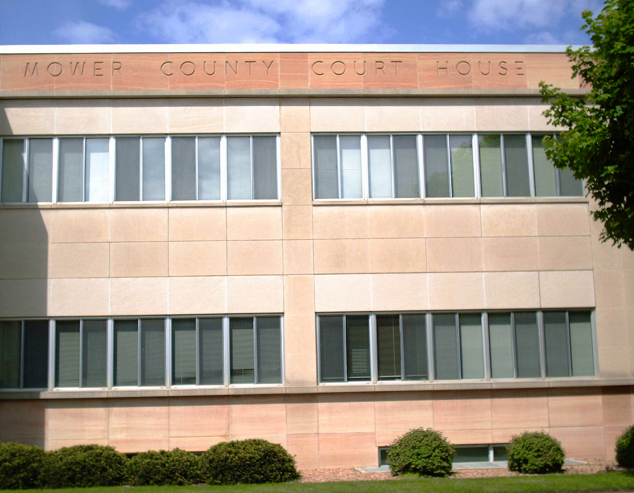 Photo I took in summer 2006 of the Mower County Courthouse in Austin, Minnesota. CC & GFDL.